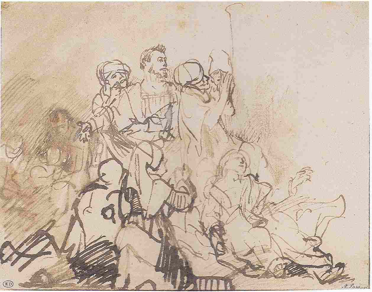 Study for the group of the sick in The hundred-guilder print